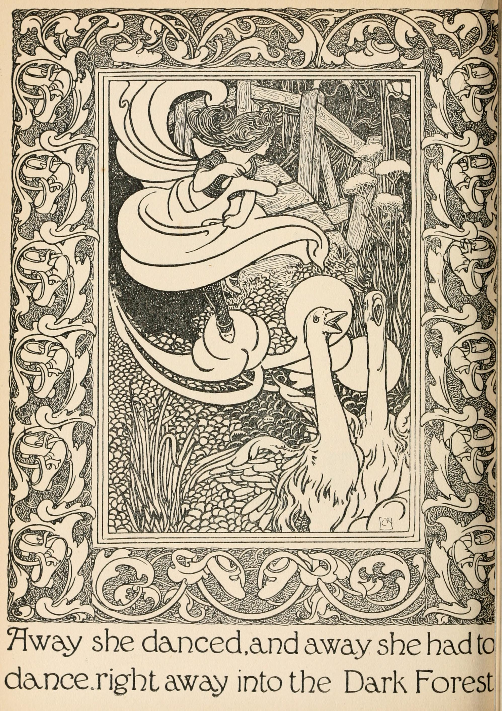 Away she danced, and away she had to dance. (Illustration by Charles Robinson in Fairy tales from Hans Christian Andersen)